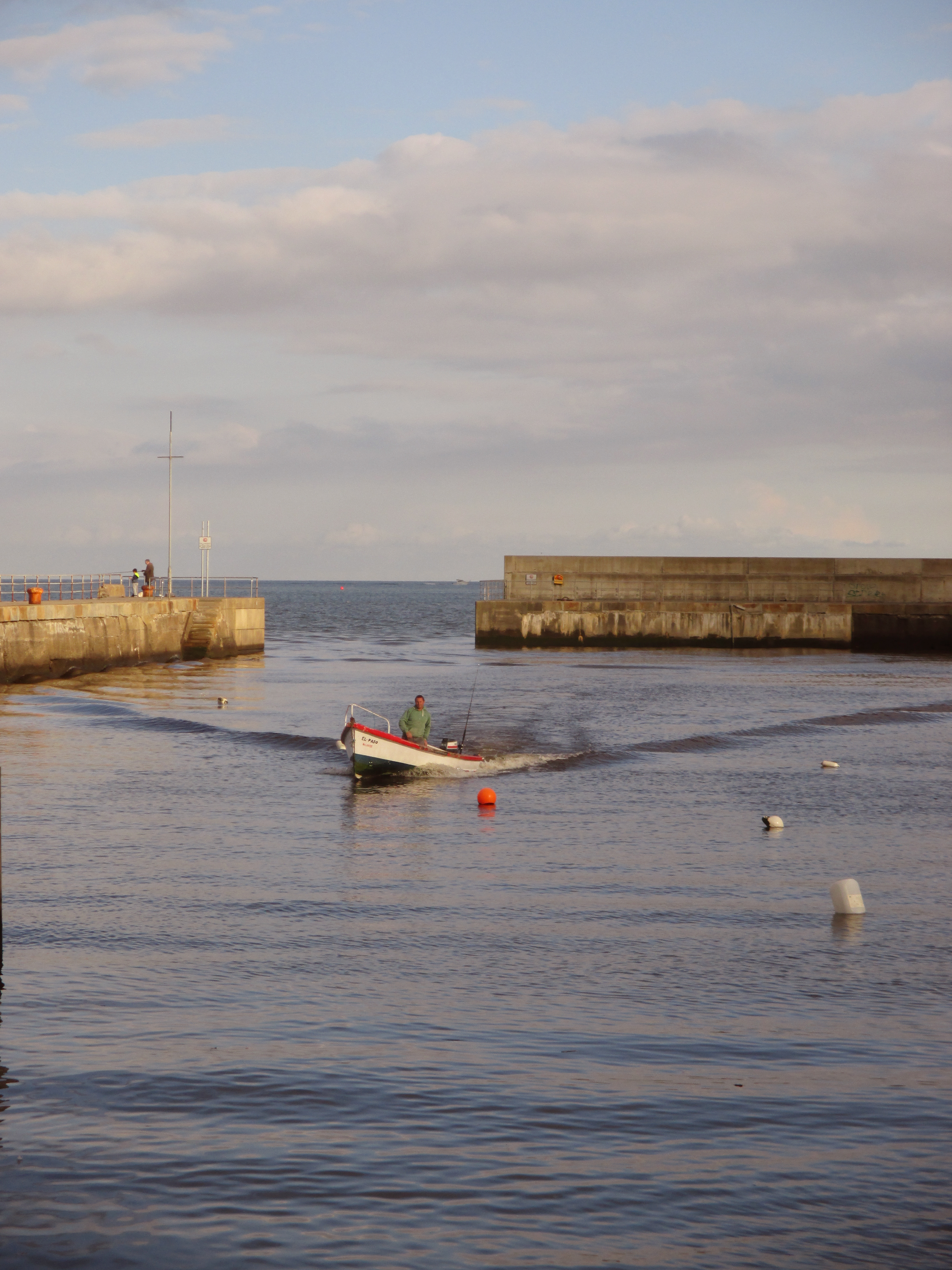 Bray Harbour, Co Wicklow, October 12 2014